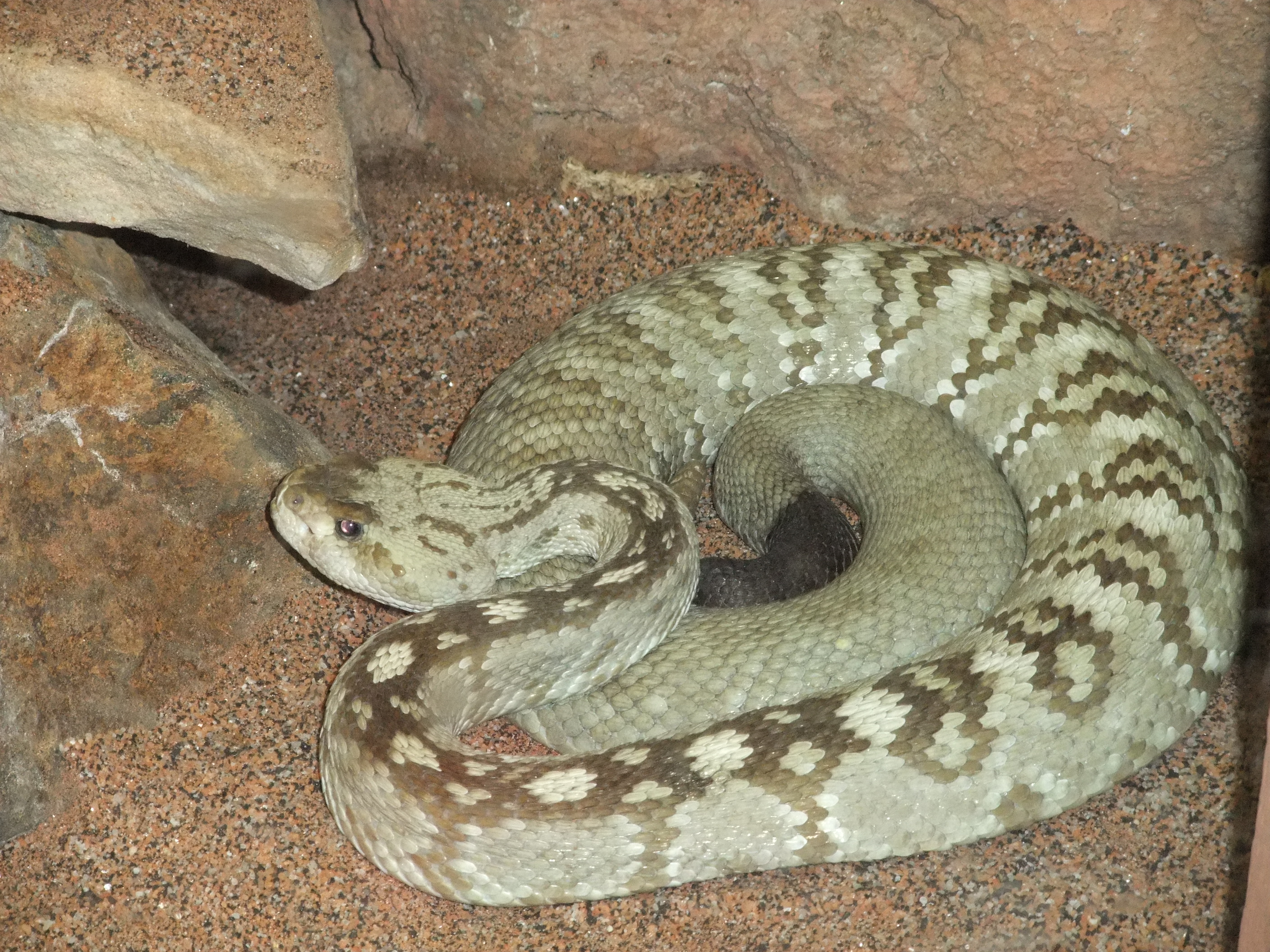 A photograph of Crotalus molossus.